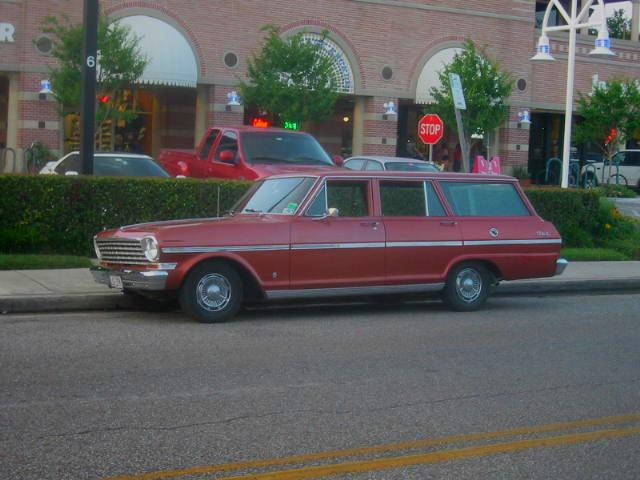 1963 Chevy II station wagon (seen in Houston's Rice Village District)